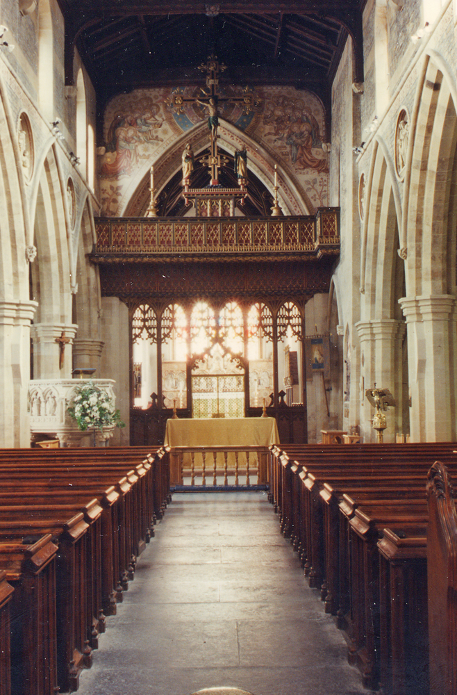 St John the Baptist, Frome - East end